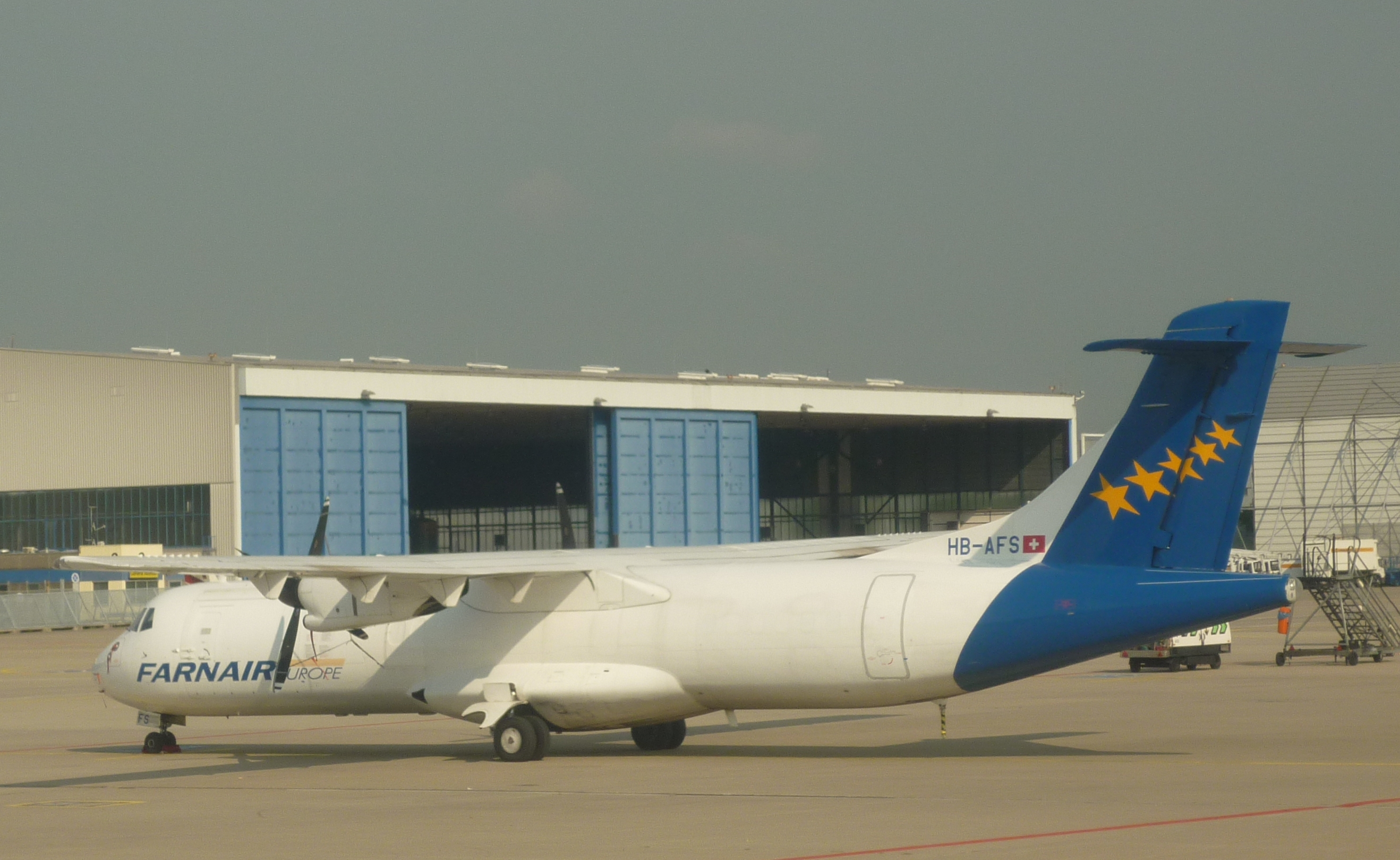 Farnair Europe Cargo-ATR72 HB-AFS at Cologne Bonn Airport (CGN)